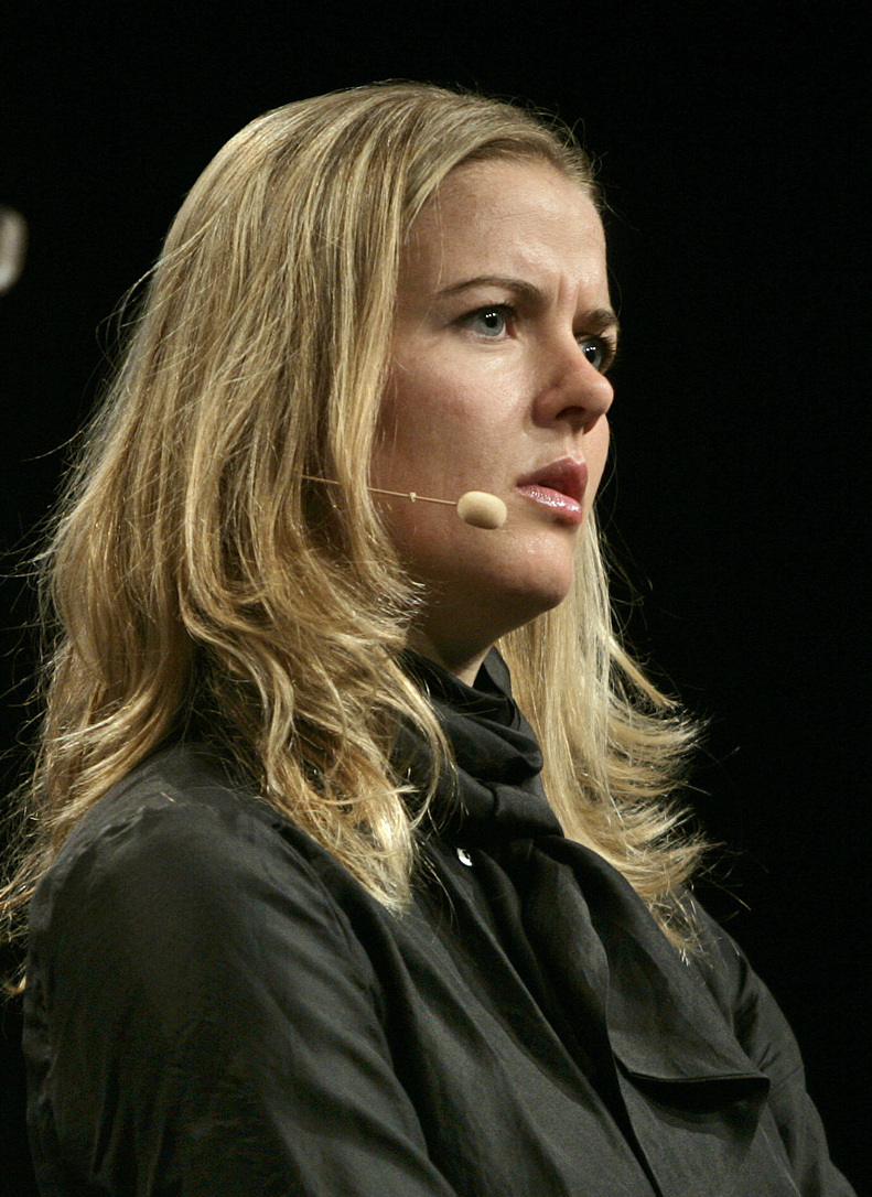 Ellen Trane Nørby (Liberals), member of Parliament.)